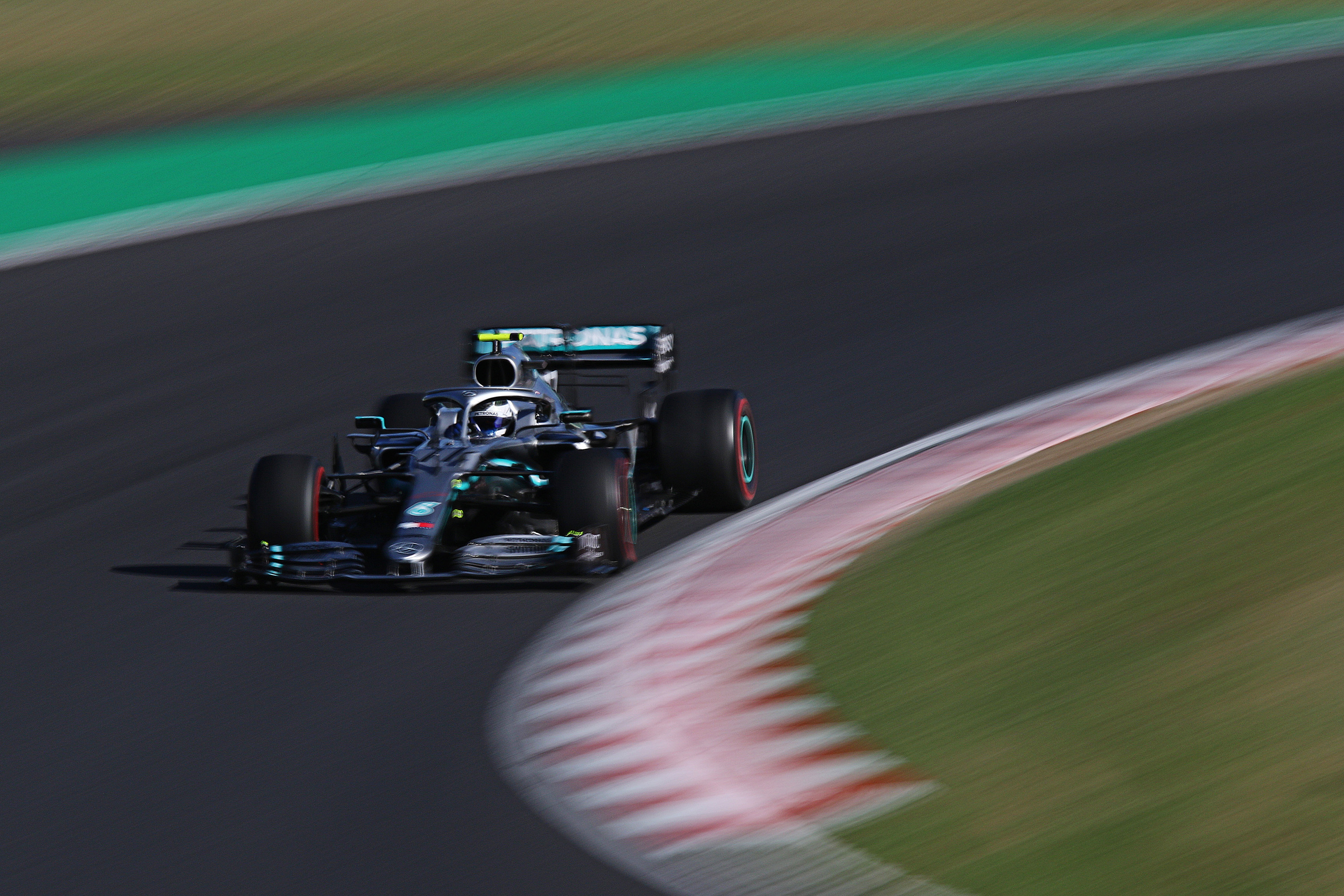 2019.10.13 F1 Rd.17 JapaneseGP Final Suzuka Circuit Mercedes AMG Petronas Motorsport 77 Valtteri Bottas [7D2_9785ks]